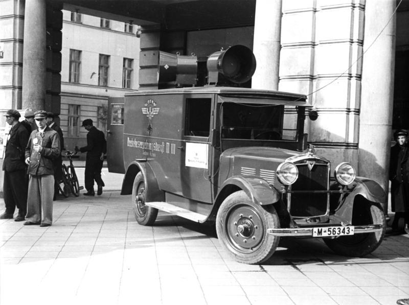 In German-liberated Poznen. After 20 years of foreign rule, the city's daily life has recovered its normal face. In the streets and in the squares a lively stream of people and vehicles passes by, stopping at shops and restaurants to have a good visit. A sound truck of the road safety education service of the NSKK on Wilhelmplatz. Fot. Ho 17.10.39 12430-39